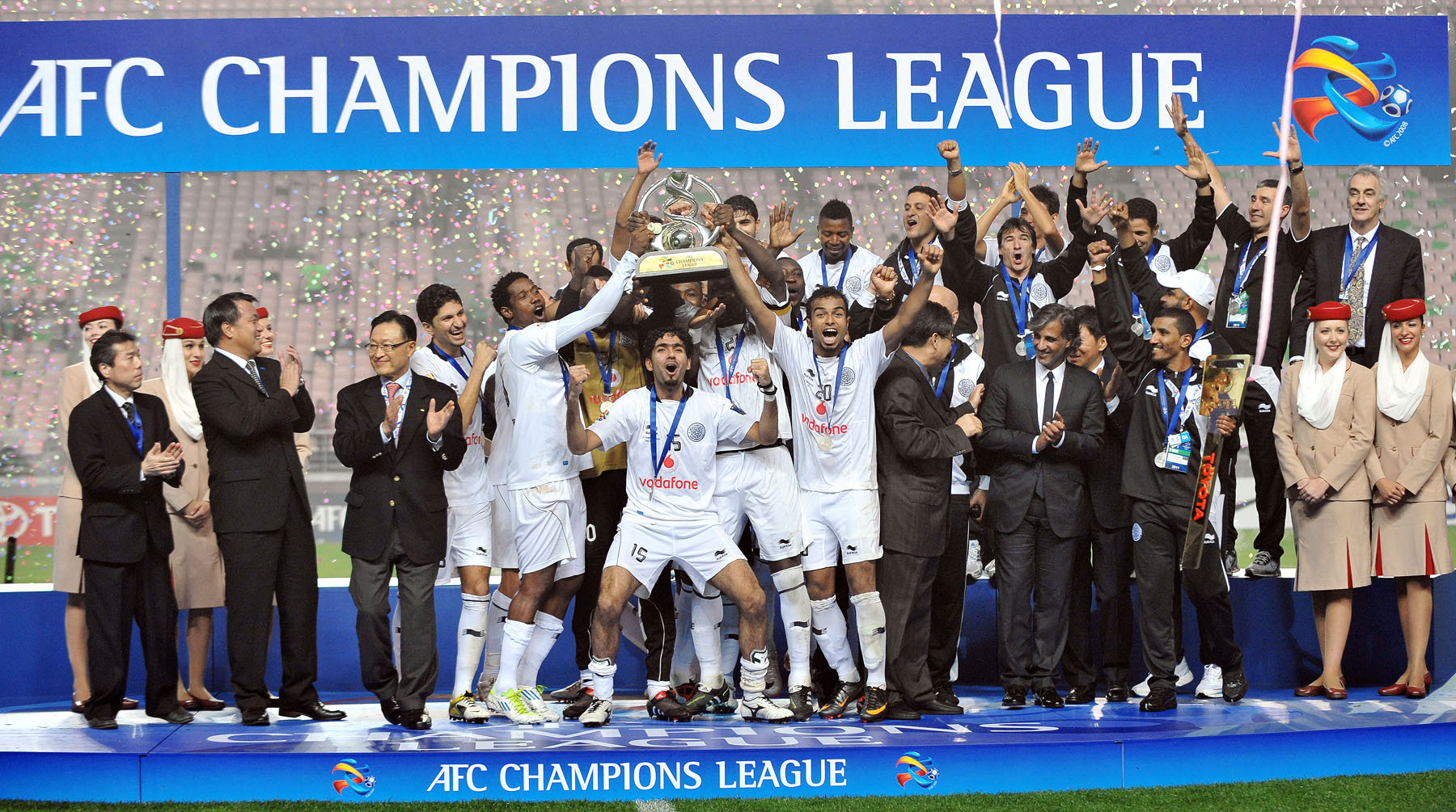 Members of the Al Sadd team celebrates after winning the AFC Champions League trophy. Pic by Doha Stadium Plus